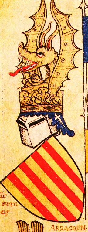 Page out of the Armorial Gelre. Folio 62r de l'Armorial de Gelre. (Detail: Coats of arms of kings of Aragon)